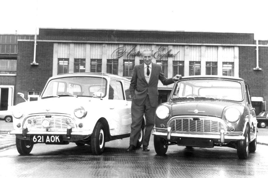 Alec Issigonis photographed at Austin, Longbridge standing next to the first Mini (621AOK) and a new 1965 Morris Mini Minor Deluxe.[1]